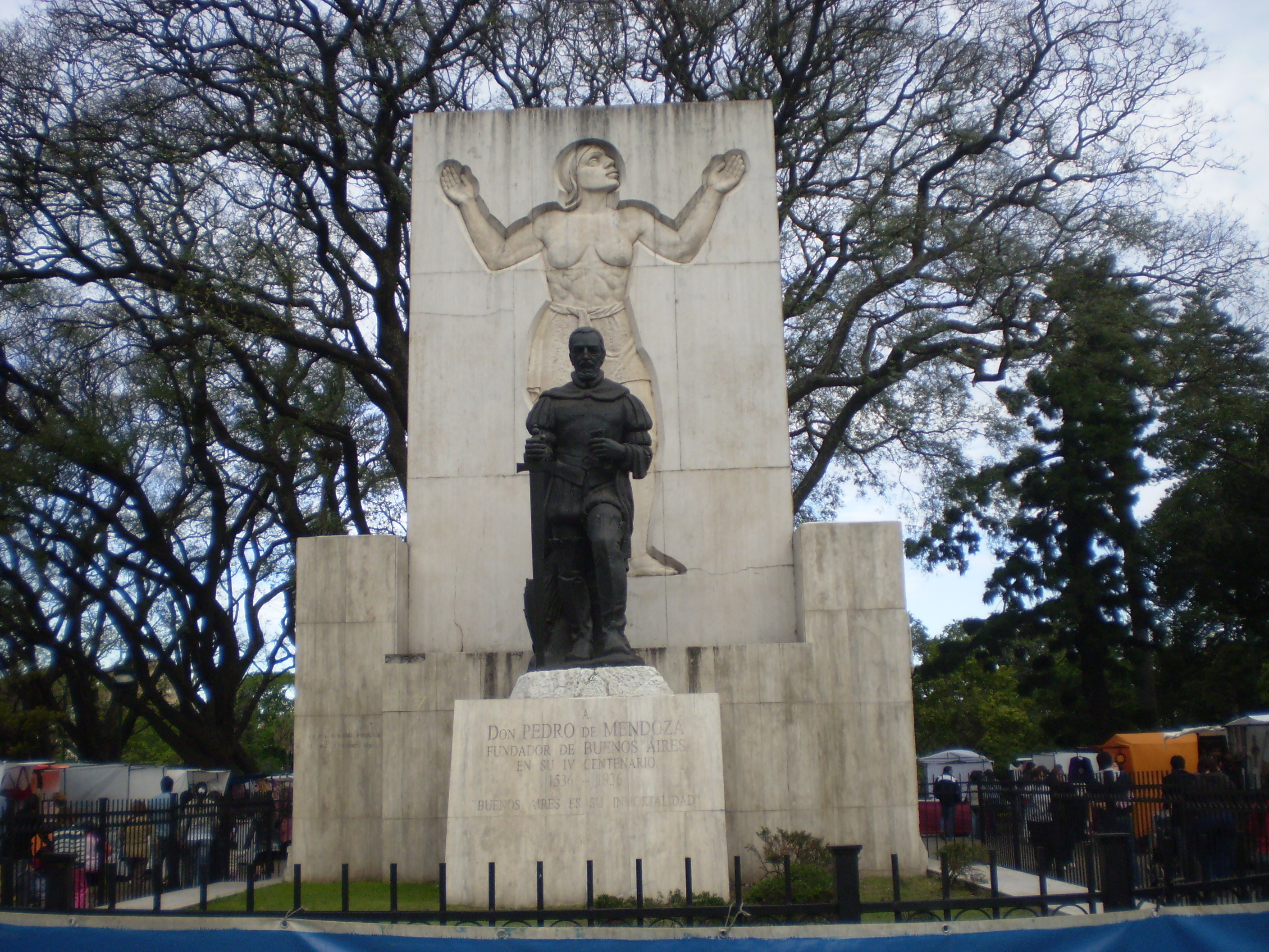 Monument to Pedro de Mendoza y Luján (c. 1487 – 1537) — in Parque Lezama of Buenos Aires. A Spanish conquistador, soldier and explorer, and the first adelantado of the Viceroyalty of the Río de la Plata (Virreinato del Río de la Plata).